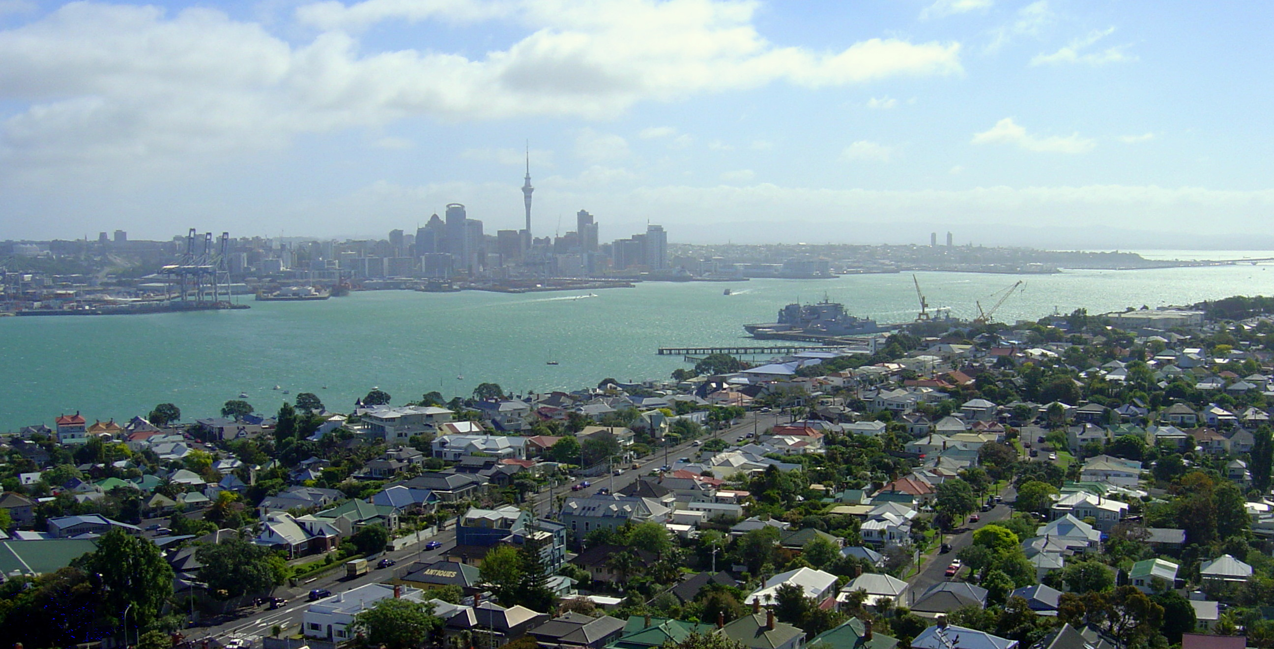 Devonport, the Auckland waterfront and the Waitemata Harbour from atop Mt Victoria.